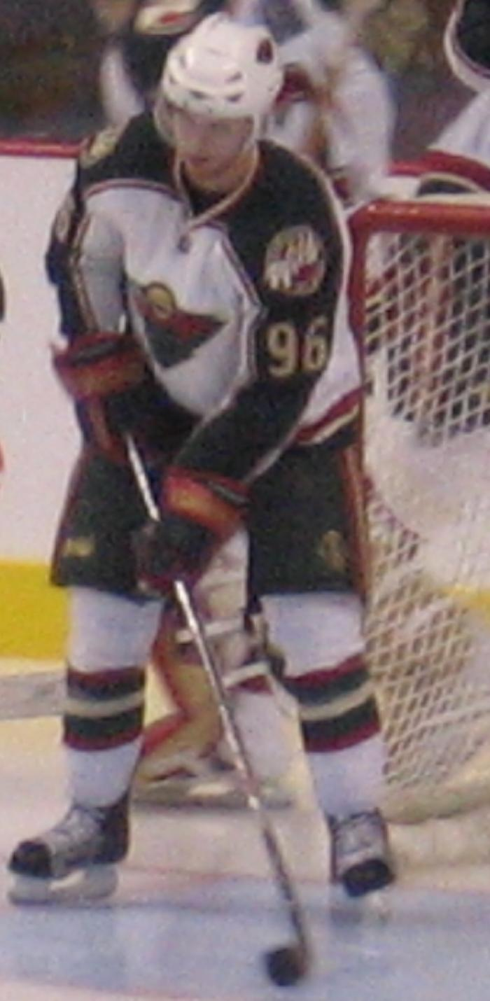 Pierre-Marc Bouchard, forward for the Minnesota Wild, warming up at GM Place before playing the Vancouver Canucks on November 16th, 2007.